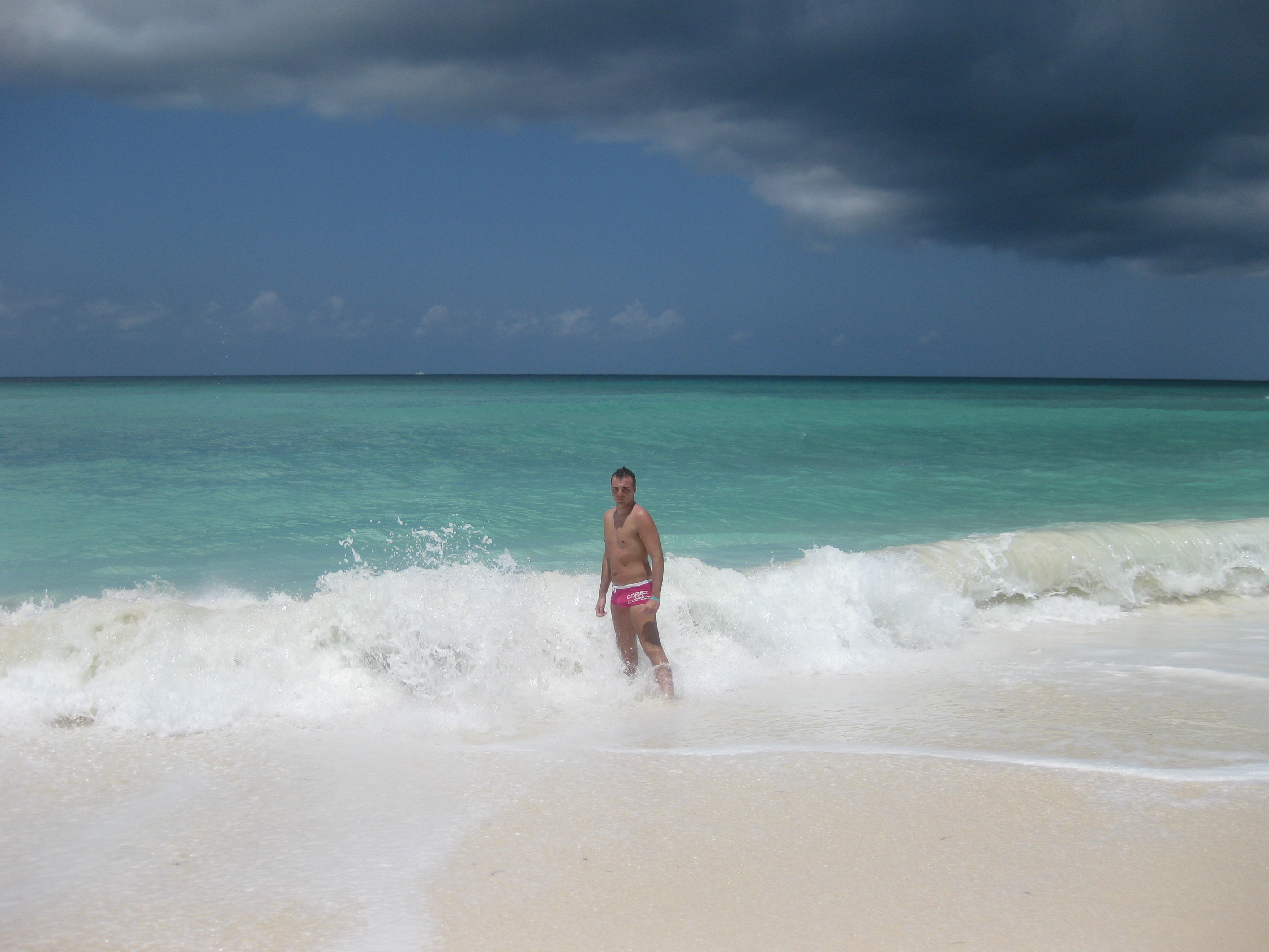 isla saona